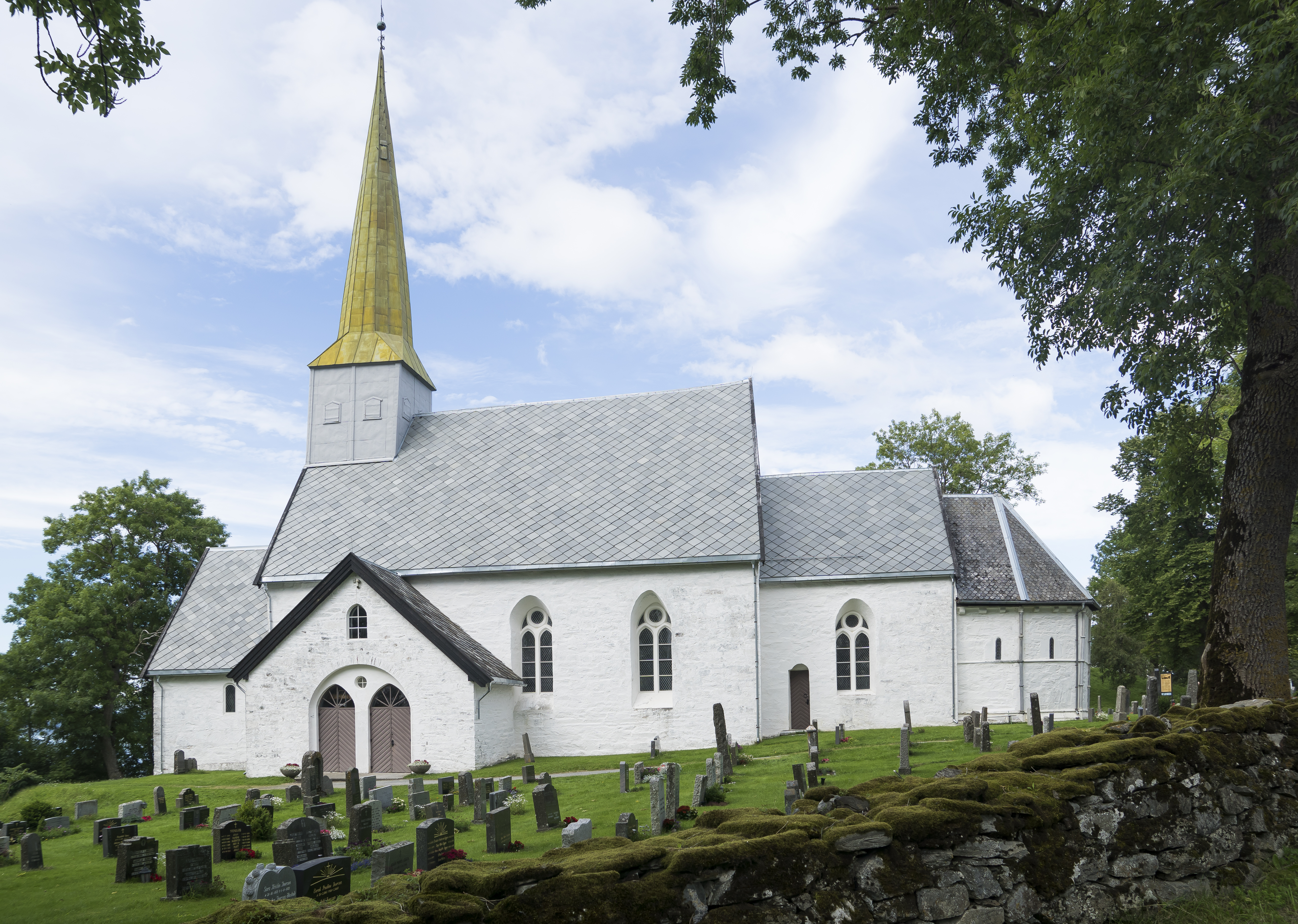 Alstadhaug kirke - church - in Skogn, Levanger in Norway.